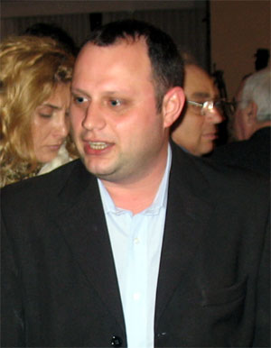 Alex Miller